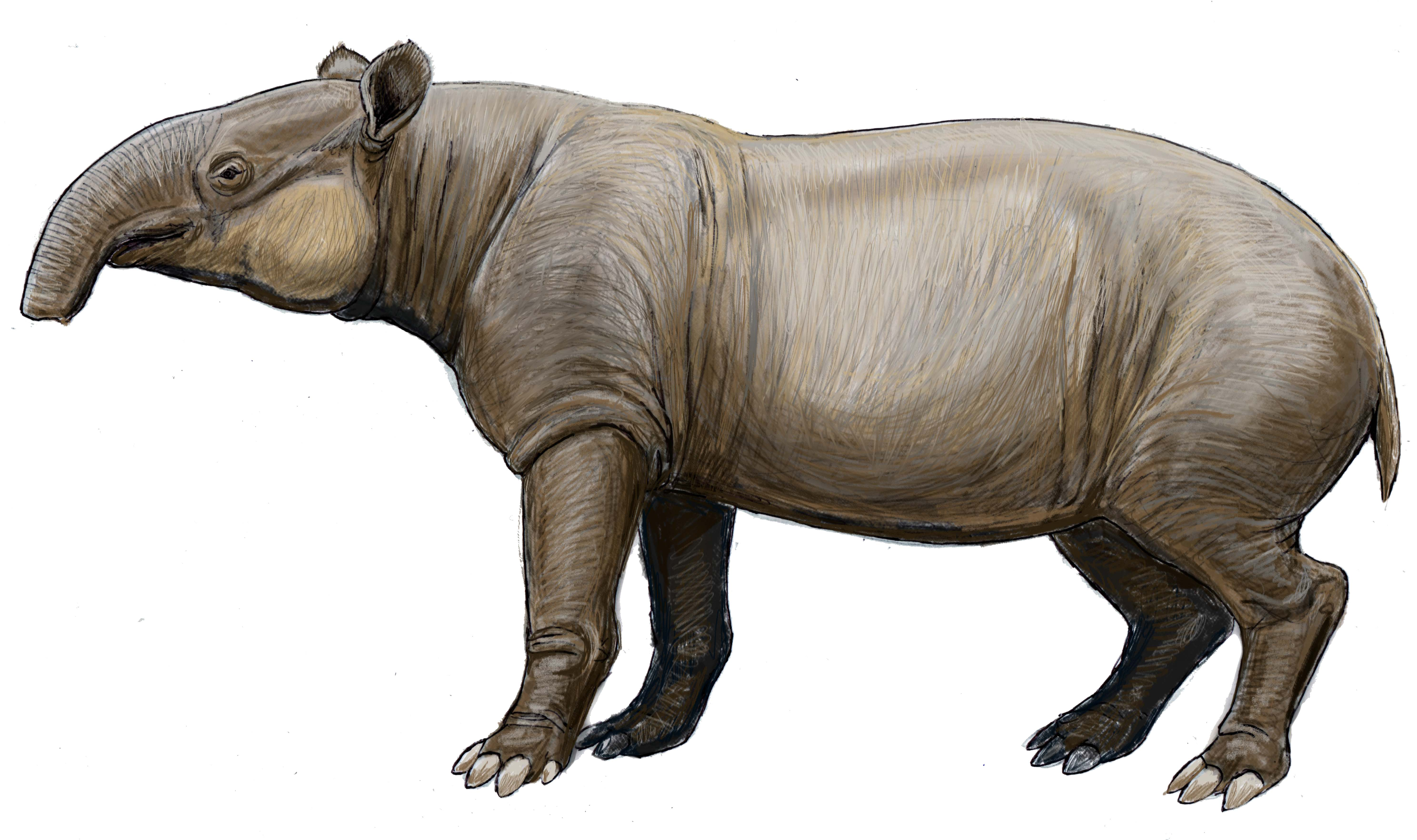 Tapirus augustus - giant tapir from Pleistocene of South China